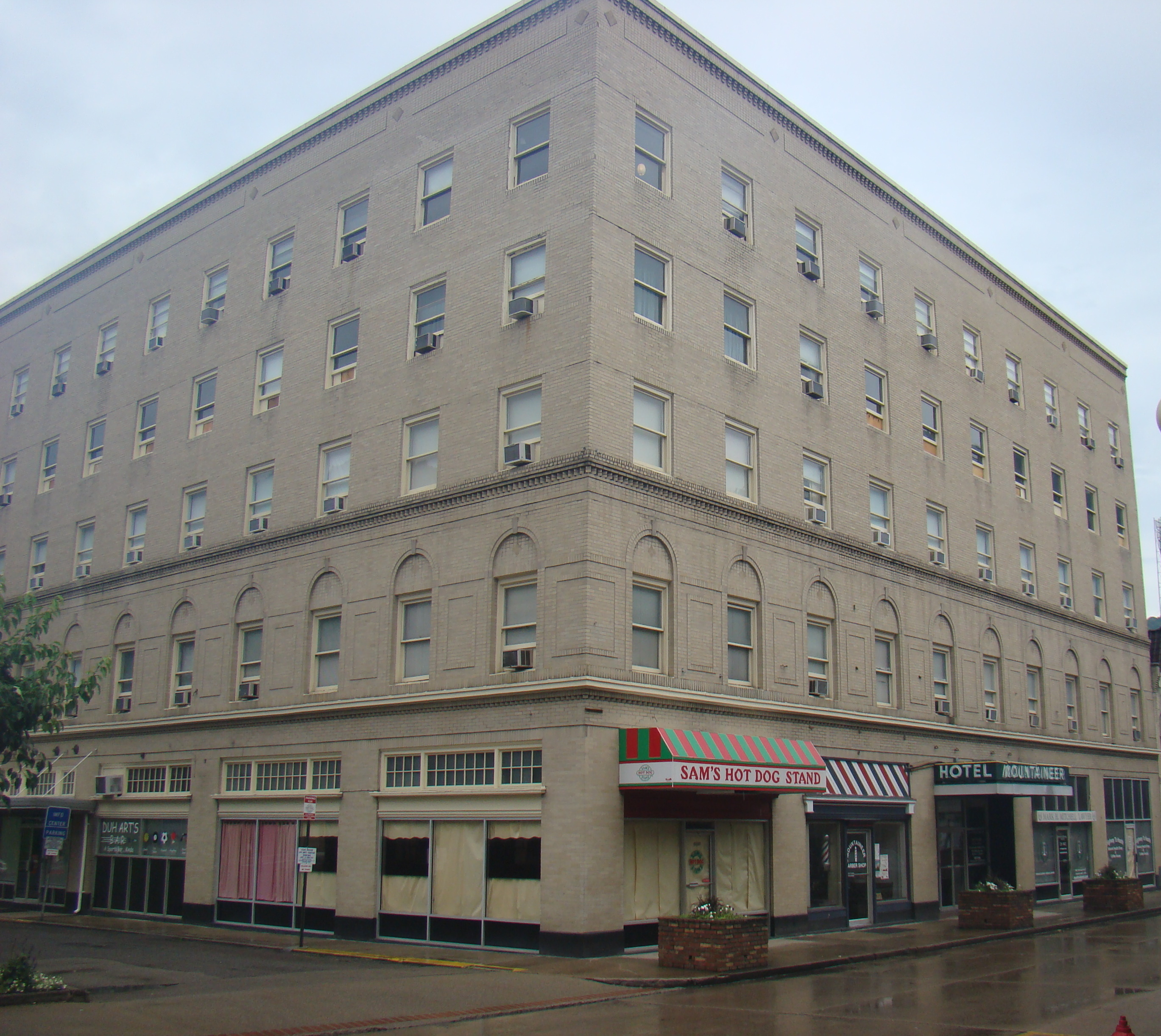 Mountaineer Hotel is a historic building located in Williamson, West Virginia. The property was added to the U.S. National Register of Historic Places on March 21, 1997.